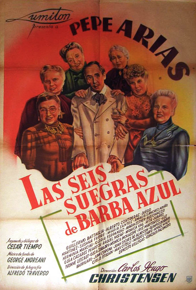 Poster for the 1945 Argentine film Las seis suegras de Barba Azul